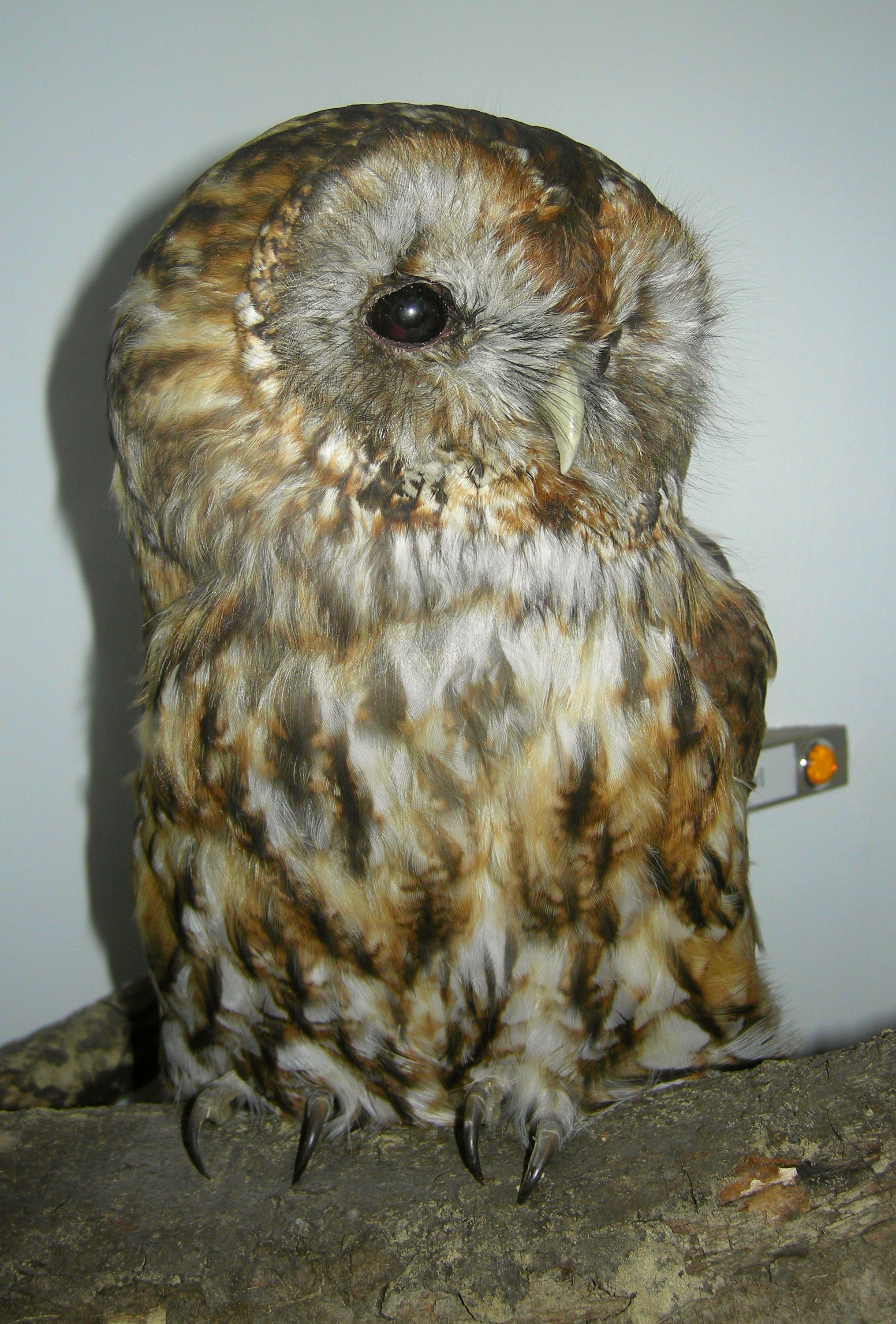 Mounted Tawny Owl in glass case, for children to learn bird identification, at Bracken Hall Countryside Centre and Museum, Baildon, West Yorkshire, England.